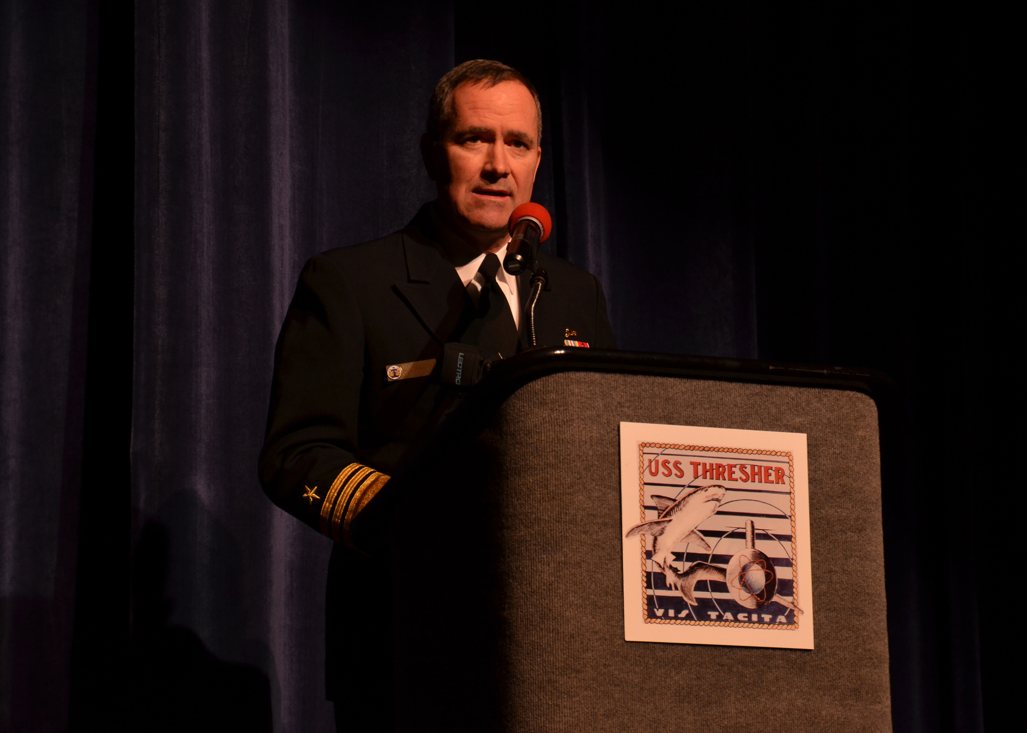 U.S. Navy Vice Adm. Michael J. Connor, the commander of Submarine Forces, speaks April 6, 2013, in Portsmouth, N.H., at a memorial service to honor the 129 crew members who died on the attack submarine USS Thresher (SSN 593) in 1963. Nearly 1,000 relatives, former shipmates and co-workers of the crew gathered to commemorate the loss of the Thresher.